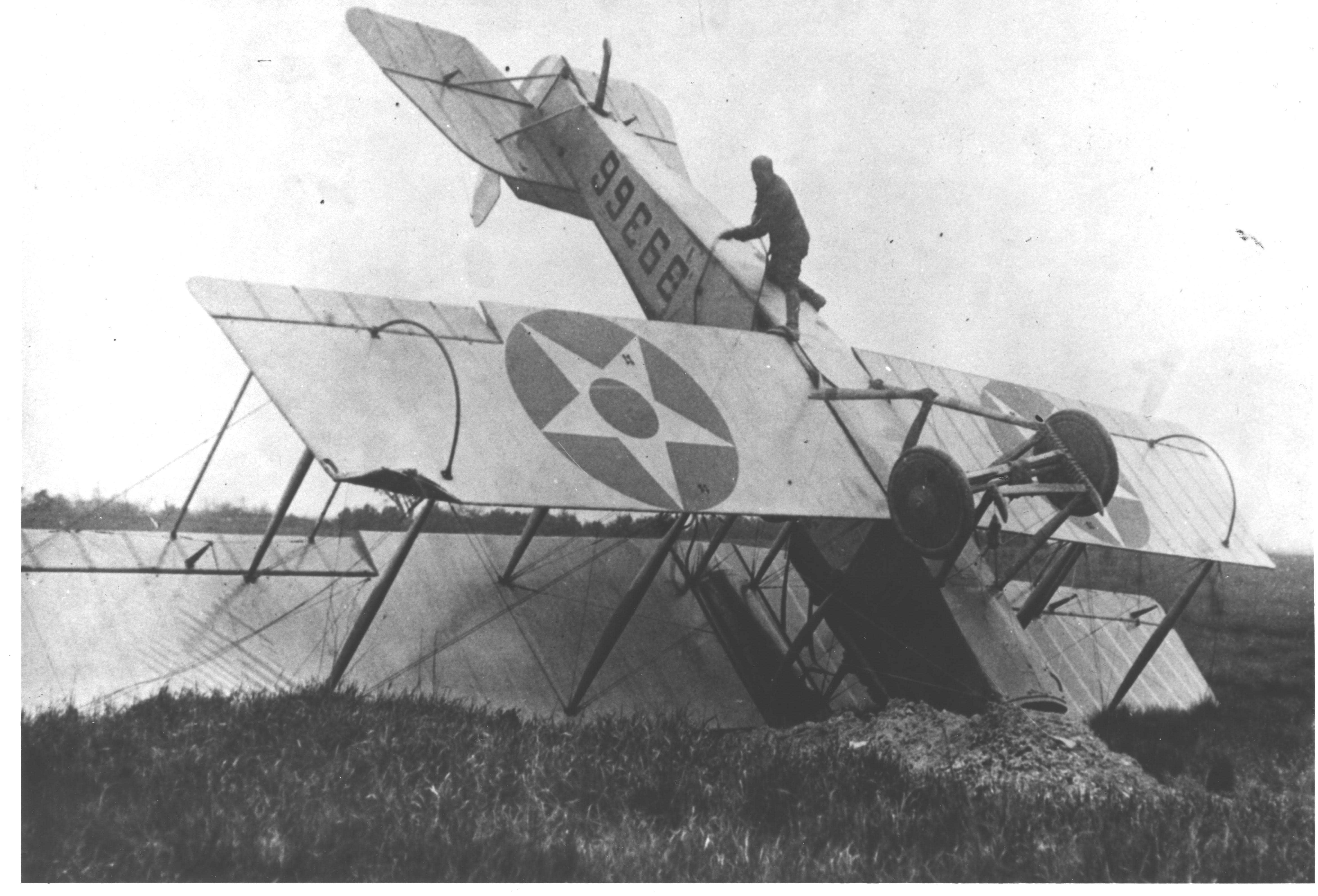 Description: This is an image of wrecked Curtiss JN-4H "Jenny" airmail plane #39366. Army pilot Lt. Webb is visible climbing up the underbelly of his crashed plane. Creator/Photographer: Unidentified photographer Medium: Black and white photographic print Culture: American Geography: USA Date: 1918 Collection: U.S. Airmail Service Repository: National Postal Museum Accession number: A.2006-13 View more collections from the Smithsonian Institution.